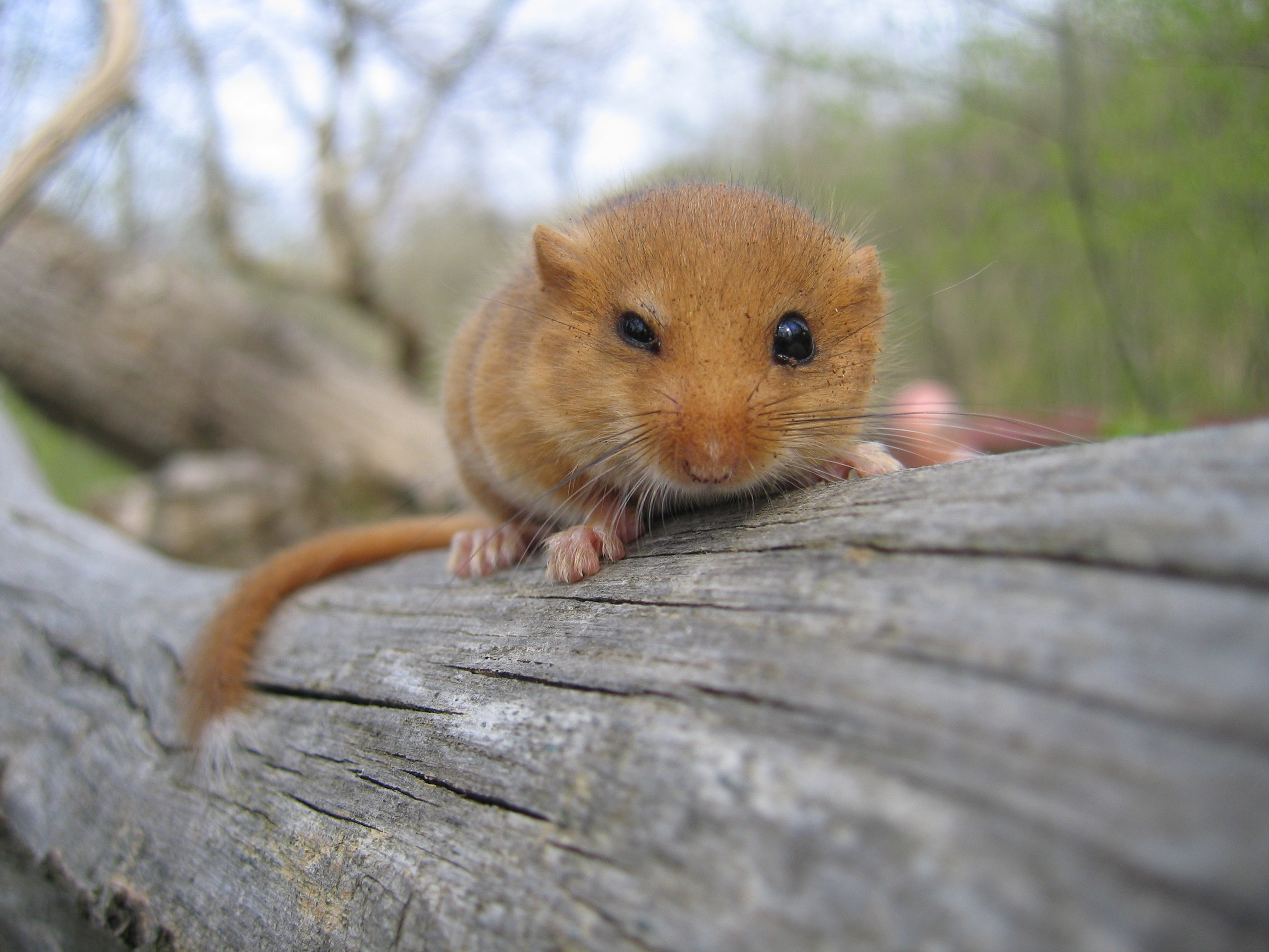 dormouse in Sasso Pisano